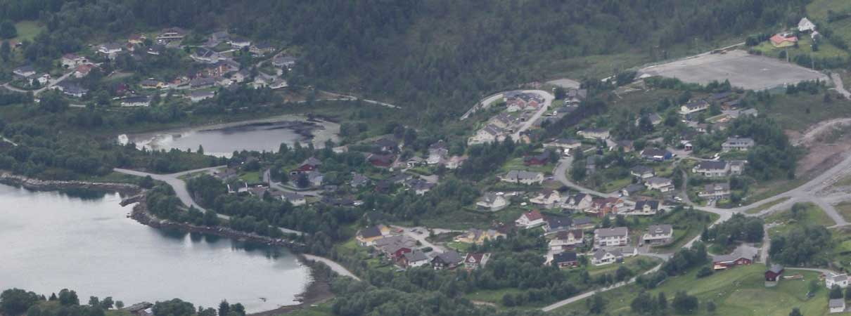 The Sundgotmarka community, seen from the peak Hasundhornet just outside Ulsteinvik city.